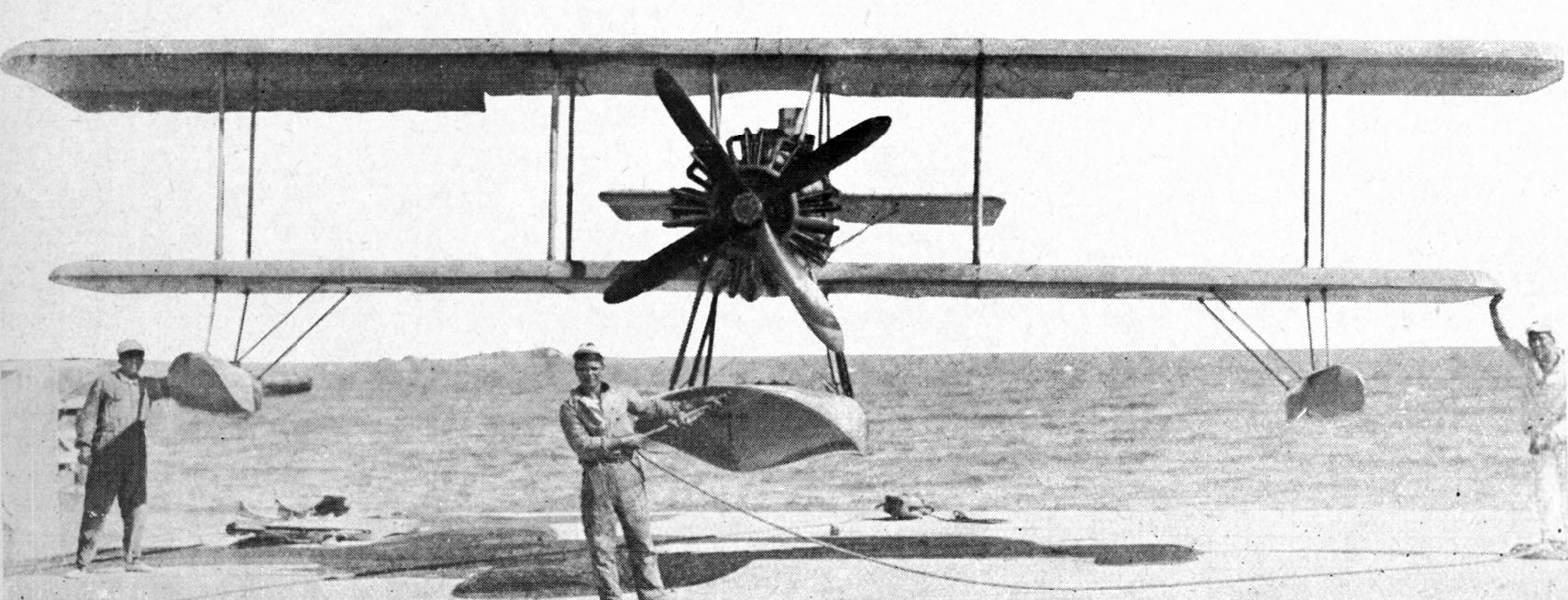 Romano R.4 photo from L'Air May 15,1928